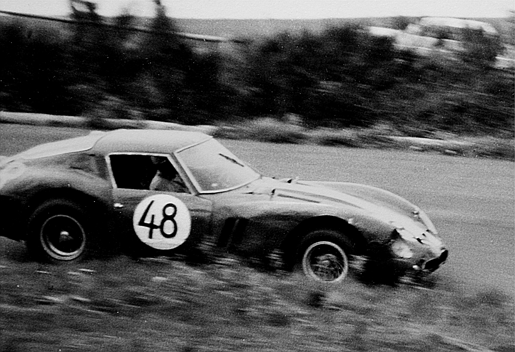 1962 Ferrari 250 GTO (chassis 3809GT) driven by Kalman von Czazy and Karl Foitek during the 1963 1000km Nürburgring. The car failed to finish the race after an accident. Photographed at the Aremberg curve.